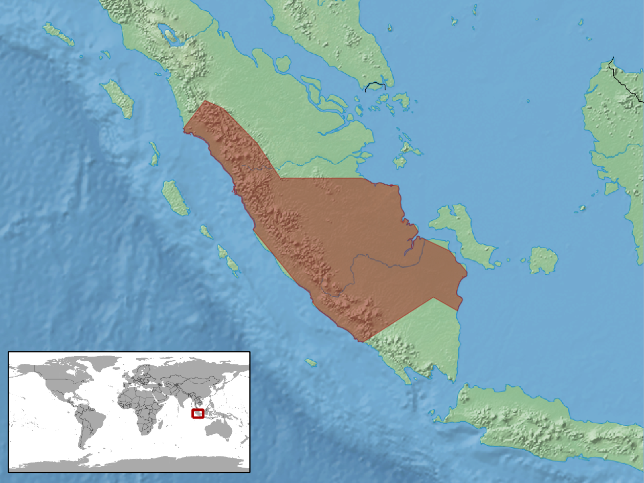 geographic distribution of Calamaria margaritophora (Native: Indonesia (Sumatera))